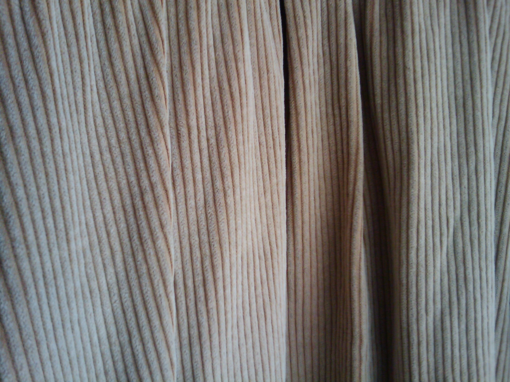 corduroy fabric from a shirt